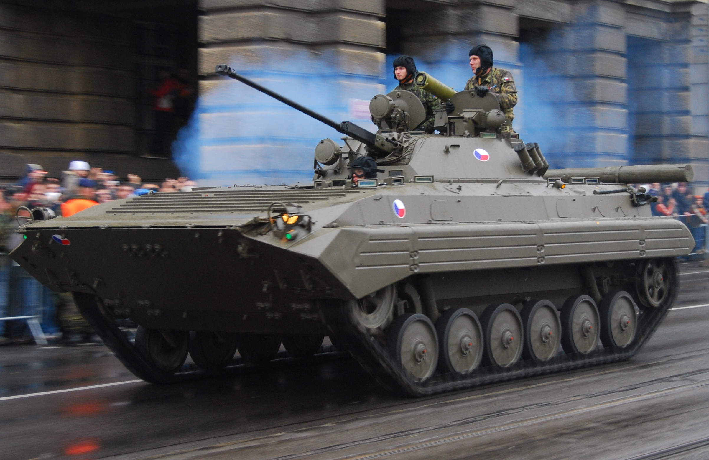 BVP-2 on military parade in Prague, Czech Republic during the 90th anniversary of independence of the Czechoslovakia.